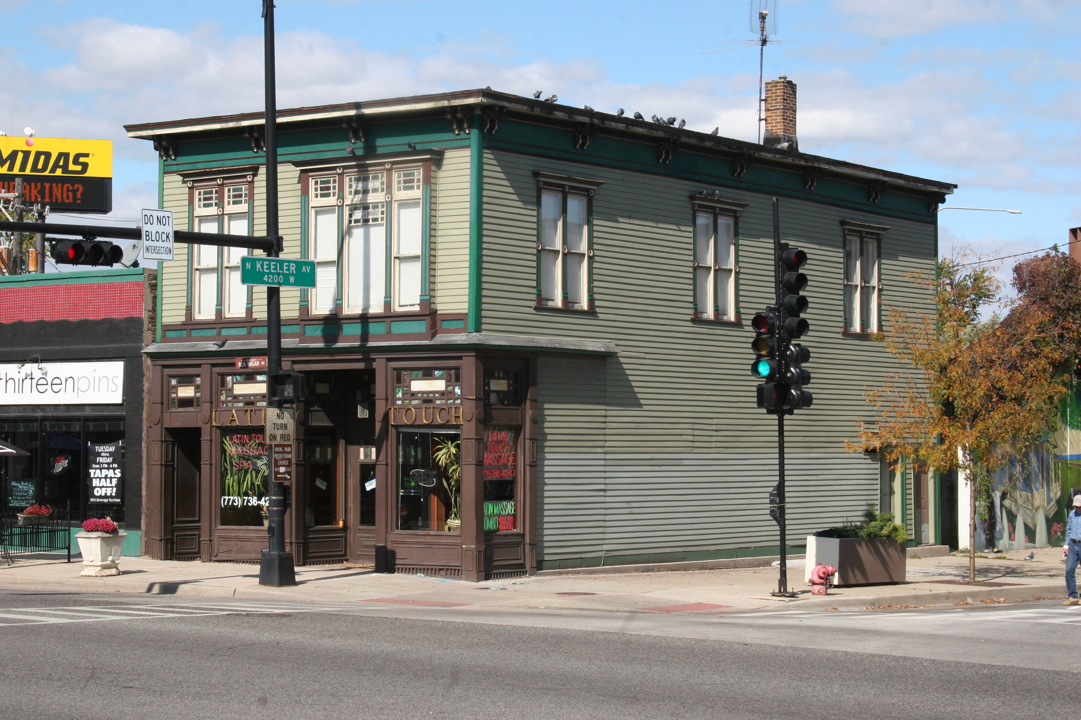 Whistle Stop Inn. 4200 W. Irving Park Rd., NW corner with Keeler Ave., Chicago